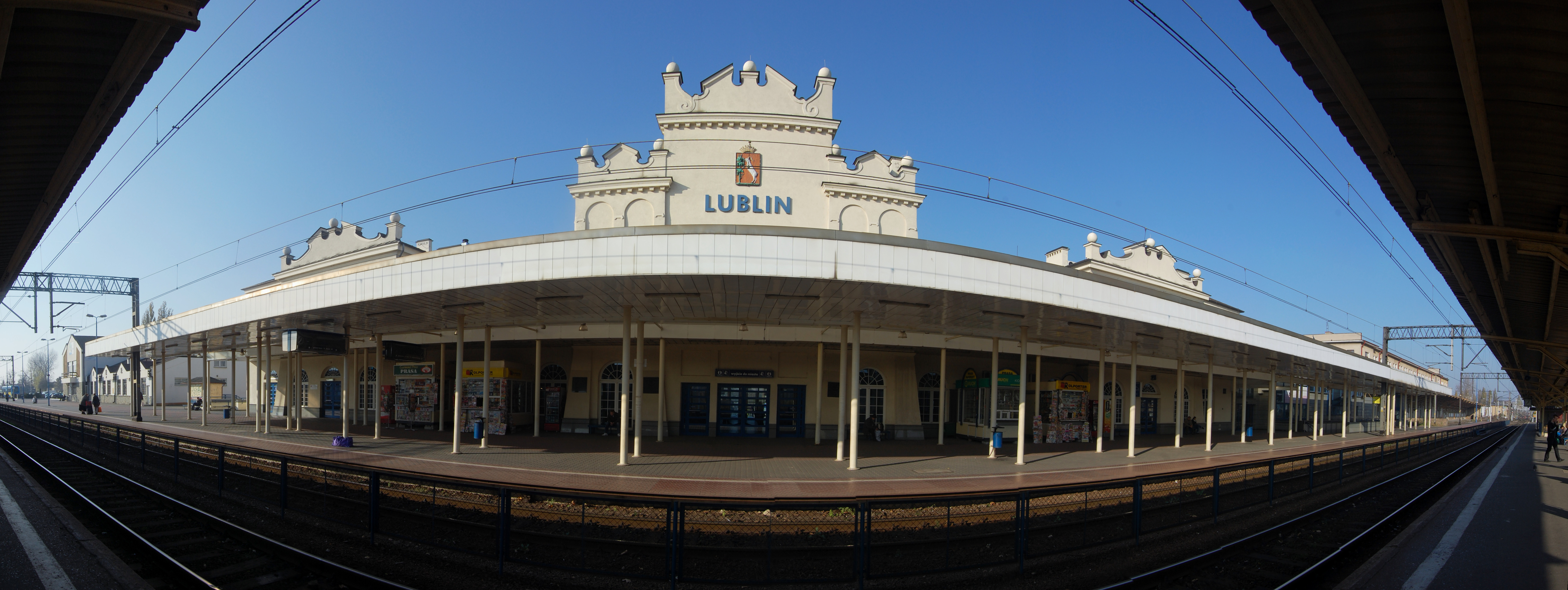 Main Train Station in Lublin